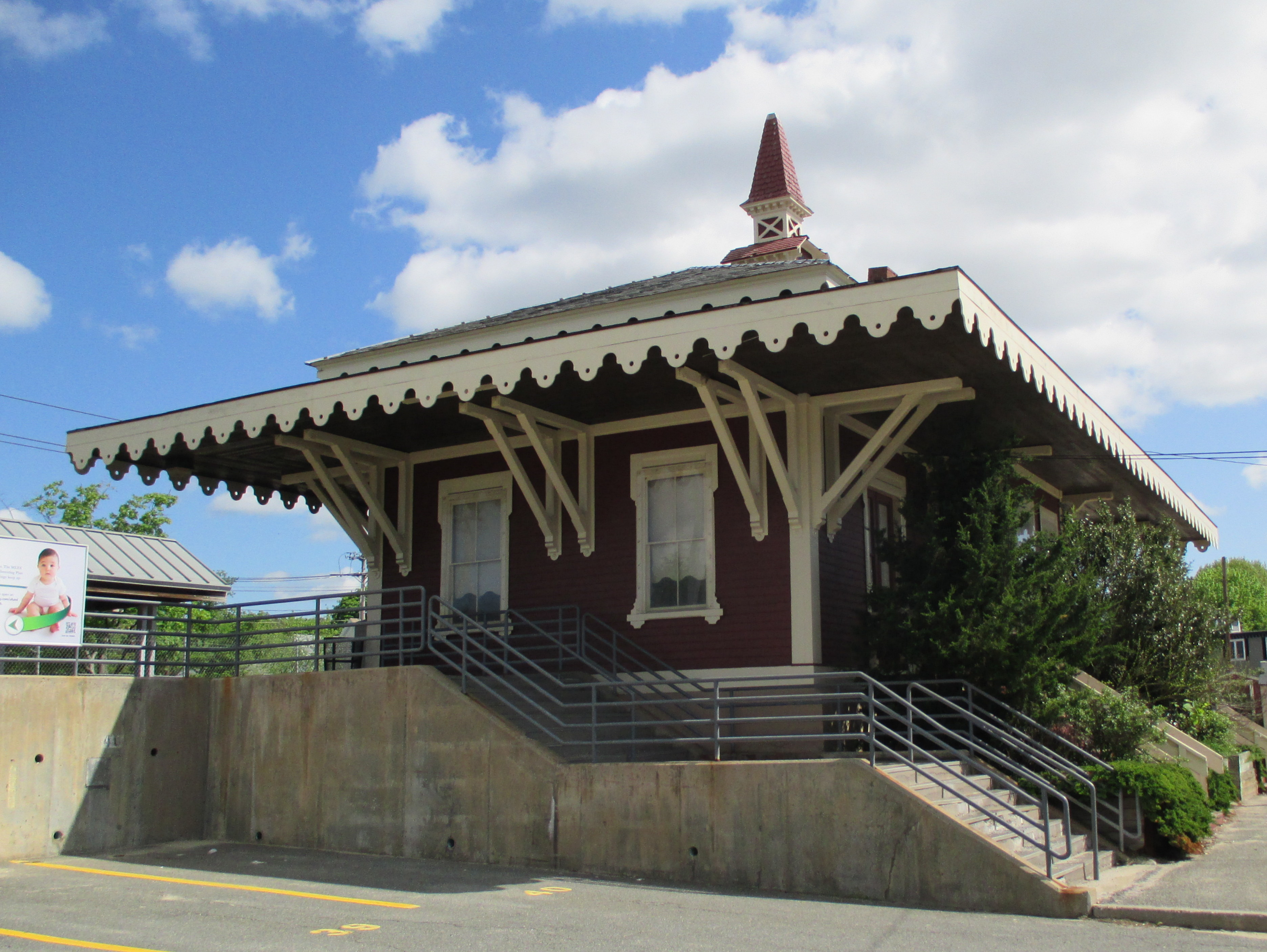 Swampscott Railroad Depot 10 Railroad Avenue Swampscott, Massachusetts 1868 (according to MACRIS) Stick Style #98001106 Built in the 1860s in the Stick Style by Boston Housewright George W. Cram